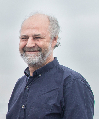 Detail of Pavel Baudiš.